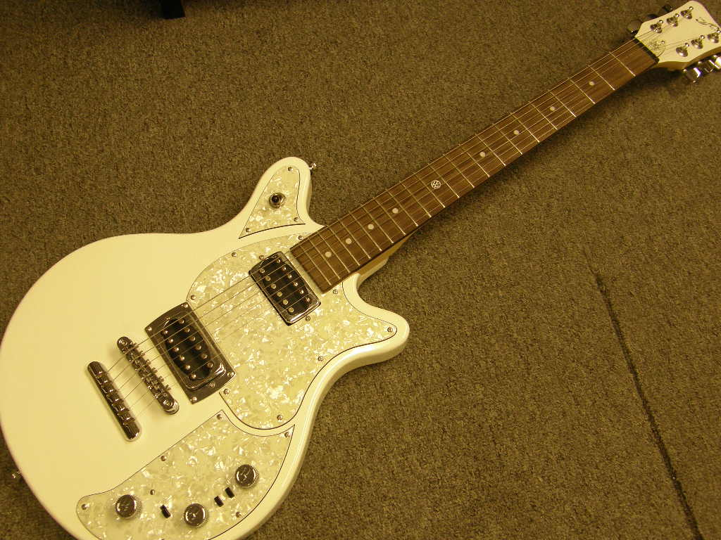 First Act Guitars